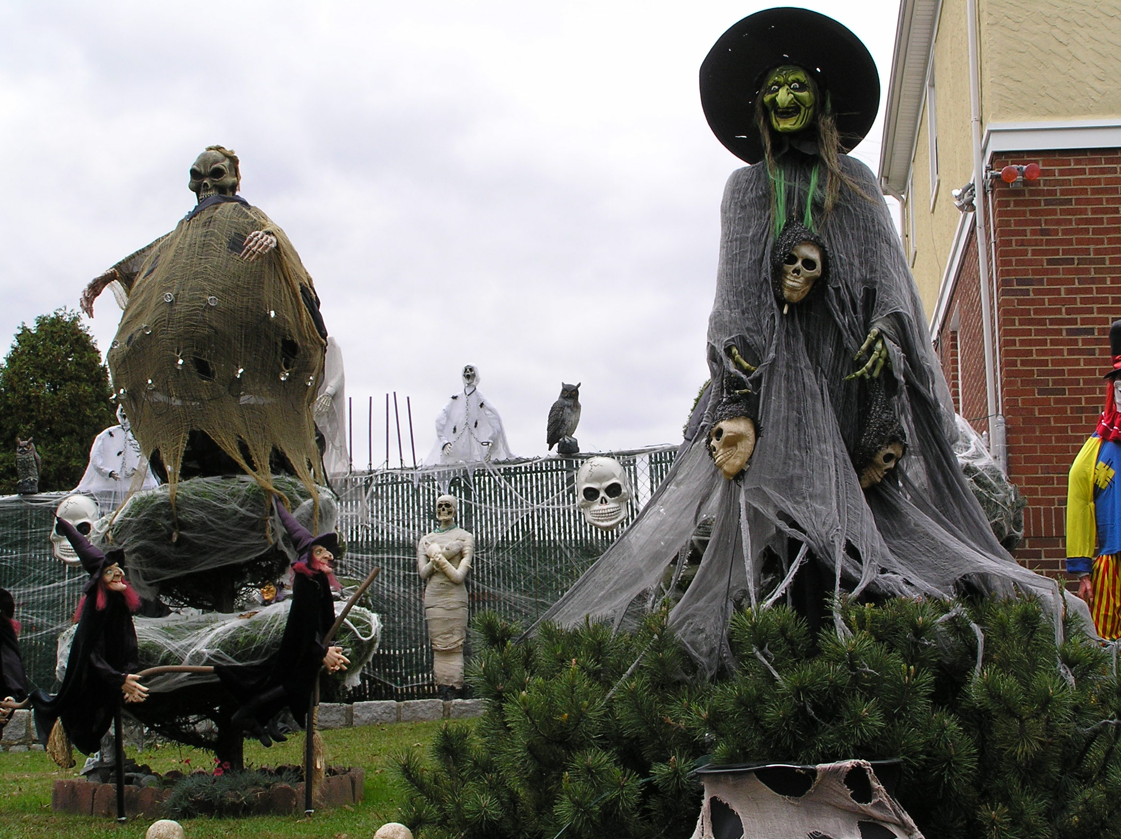 Halloween Witch